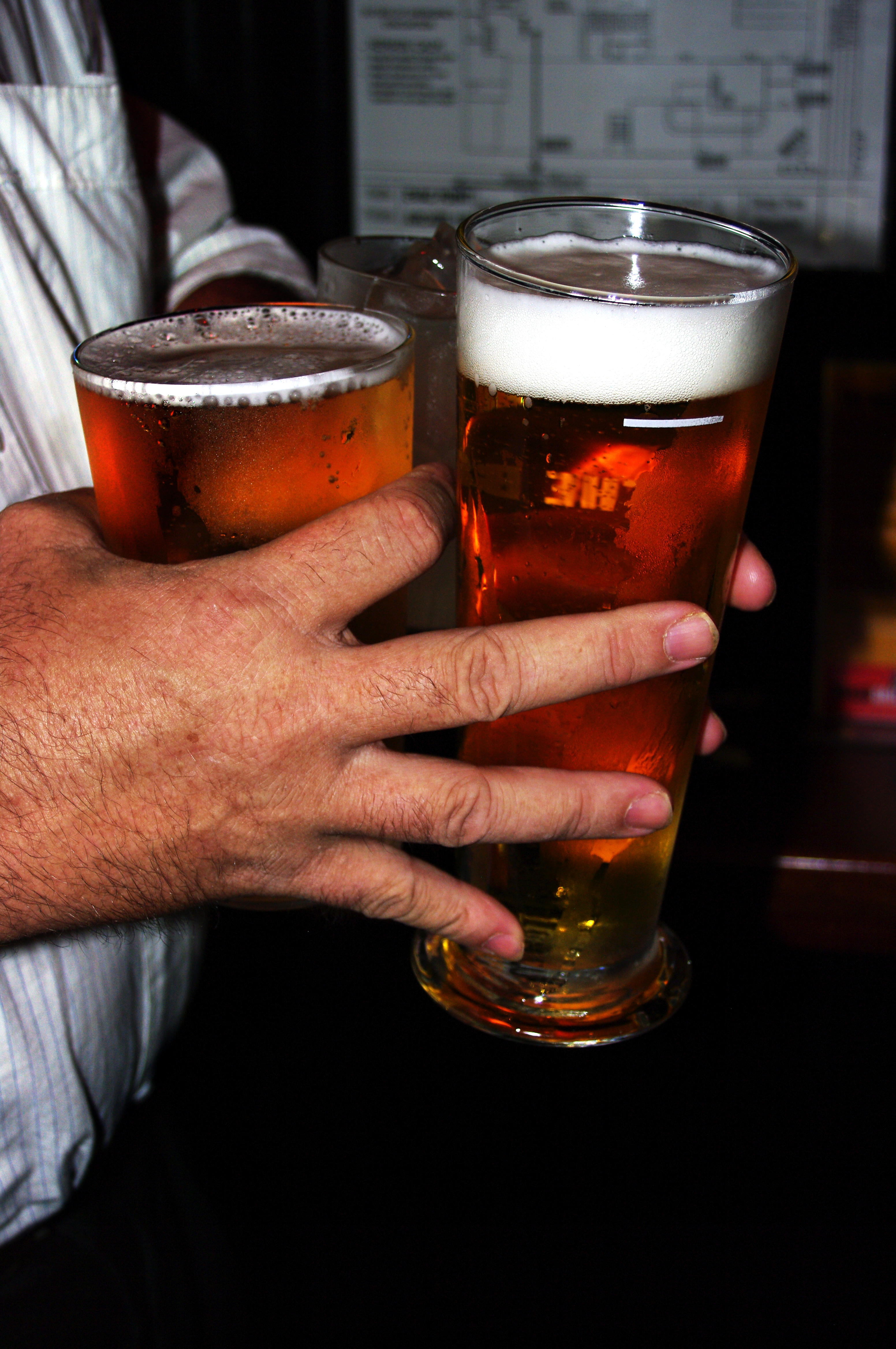 A round of drinks commonly known as a 'Shout